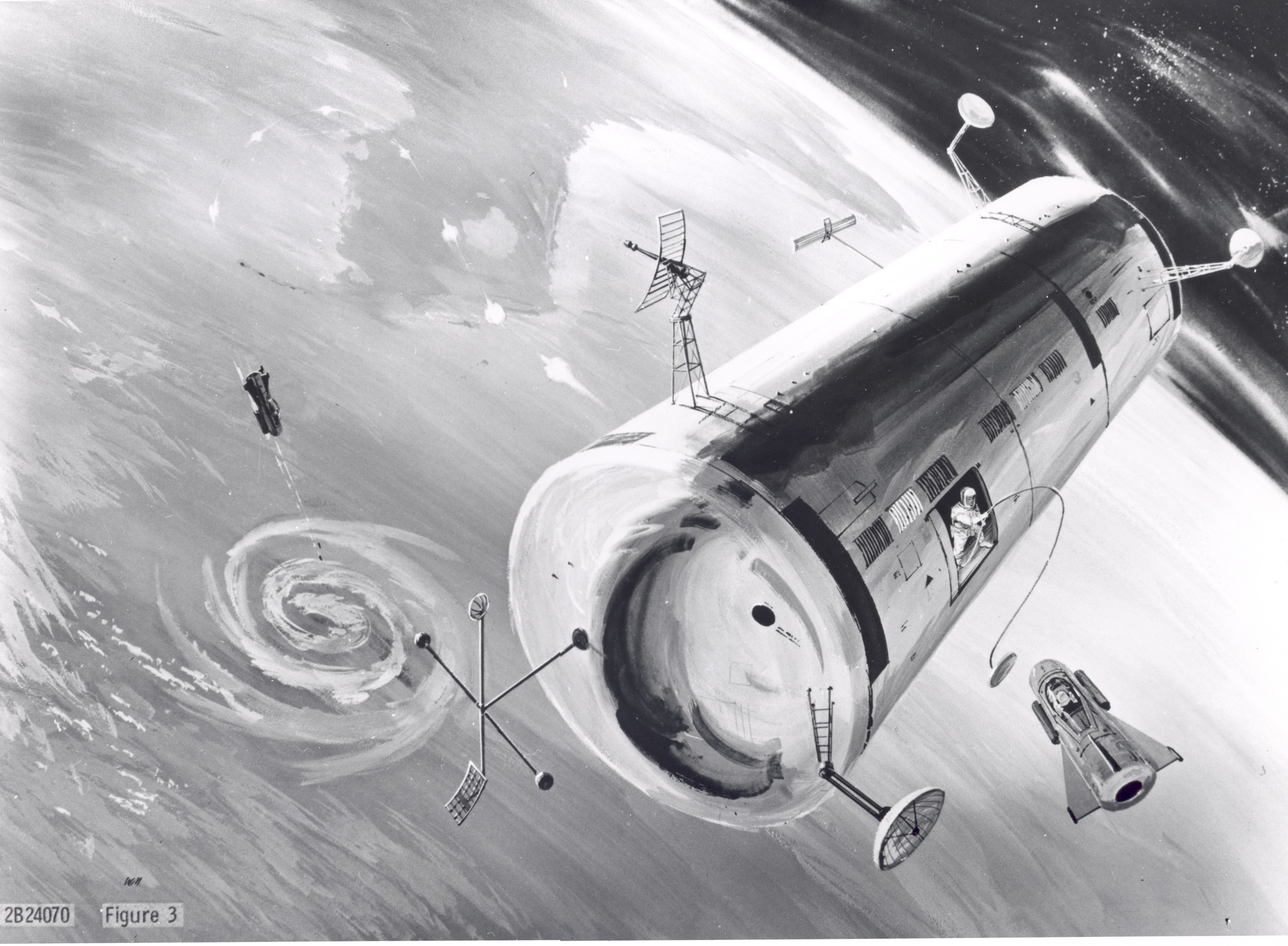 A 1960 concept image of the United States Air Force's proposed Manned Orbiting Laboratory (MOL) that was intended to test the military usefulness of having humans in orbit. The station's baseline configuration was that of a two-person Gemini B spacecraft that could be attached to a laboratory vehicle. The structure was planned to launch onboard a Titan IIIC rocket. The station would be used for a month and then the astronauts could return to the Gemini capsule for transport back to Earth. The first launch of the MOL was scheduled for December 15, 1969, but was then pushed back to the fall of 1971. The program was cancelled by Defense Secretary Melvin R. Laird in 1969 after the estimated cost of the program had risen in excess of billion, and had already spent .3 billion. Some of the military astronauts selected for the program then transferred to NASA and became some of the first people to fly the Space Shuttle, including Richard Truly, who later became the NASA Administrator.